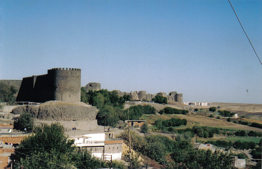 The city walls of Diyarbakir in Southeastern Turkey stretch almost unbroken for 6 kilometres. The current walls were built by Constantius II when the city was called Roman "Amida", and extended by Valentinian I between 367-375 AD.